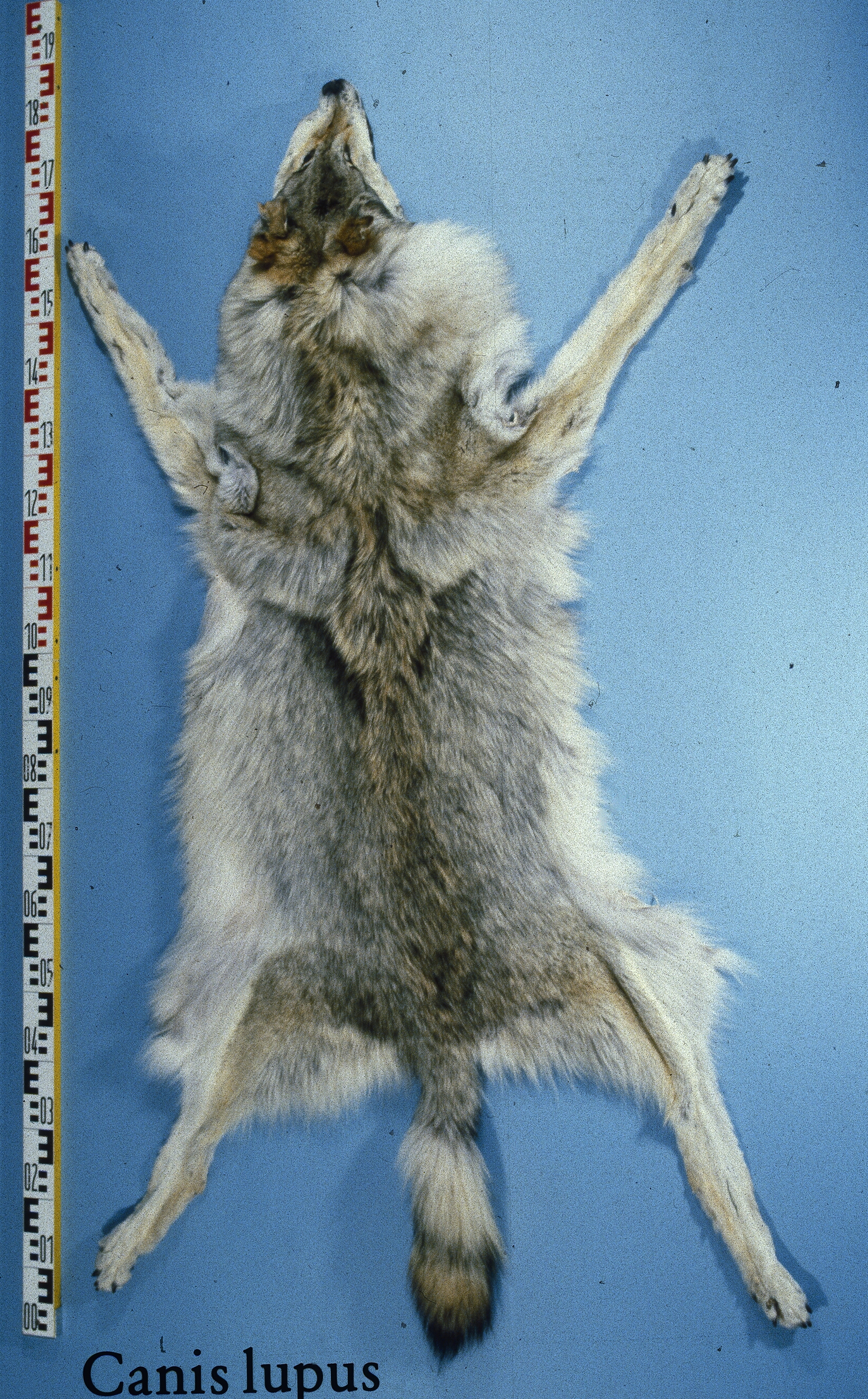 Grey wolf fur skin (Canis lupus), Siberia. Fur skin collection, Bundes-Pelzfachschule, Frankfurt/Main, Germany